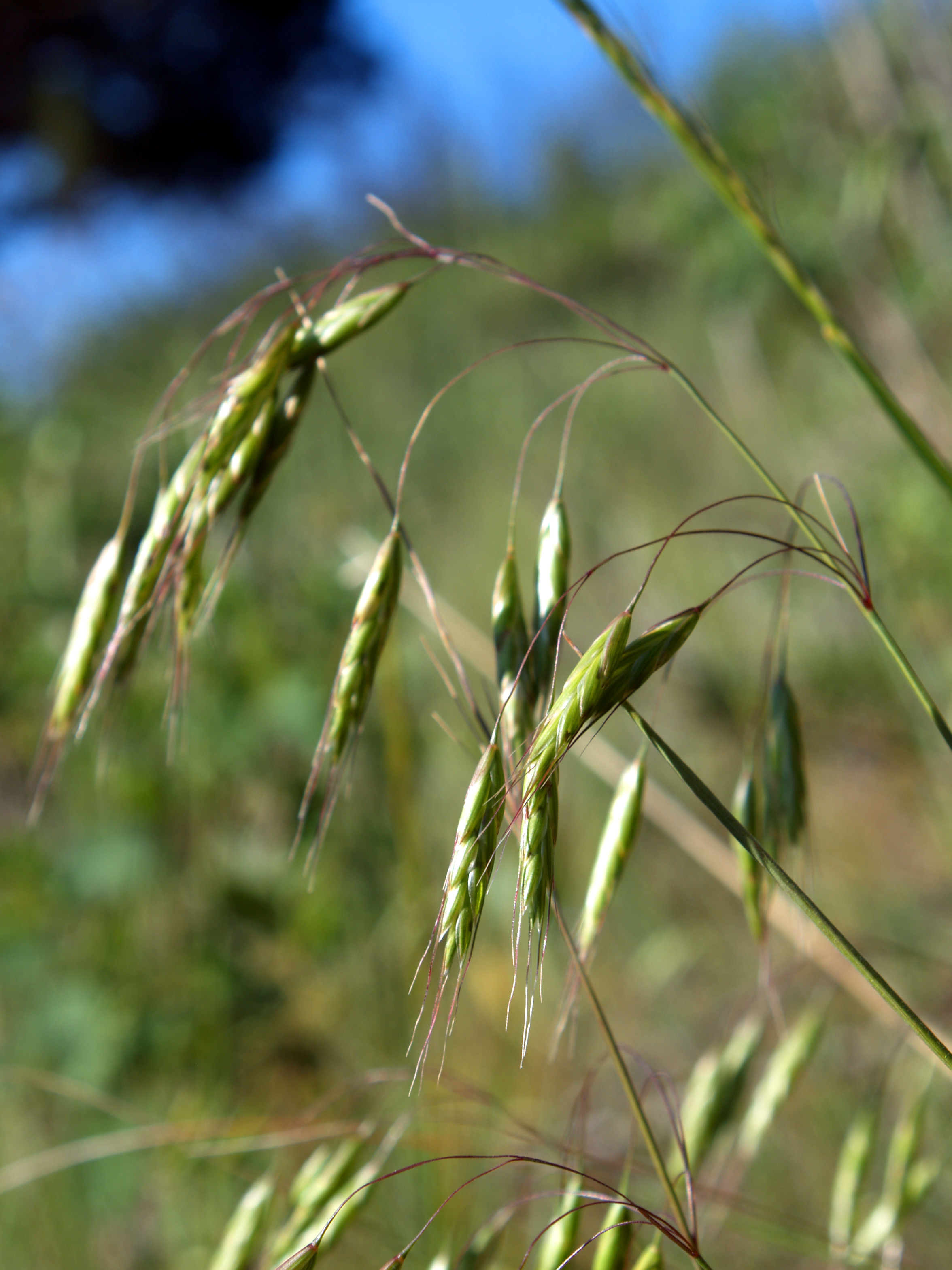 Bromus japonicus at Wind Cave National Park, South Dakota, USA